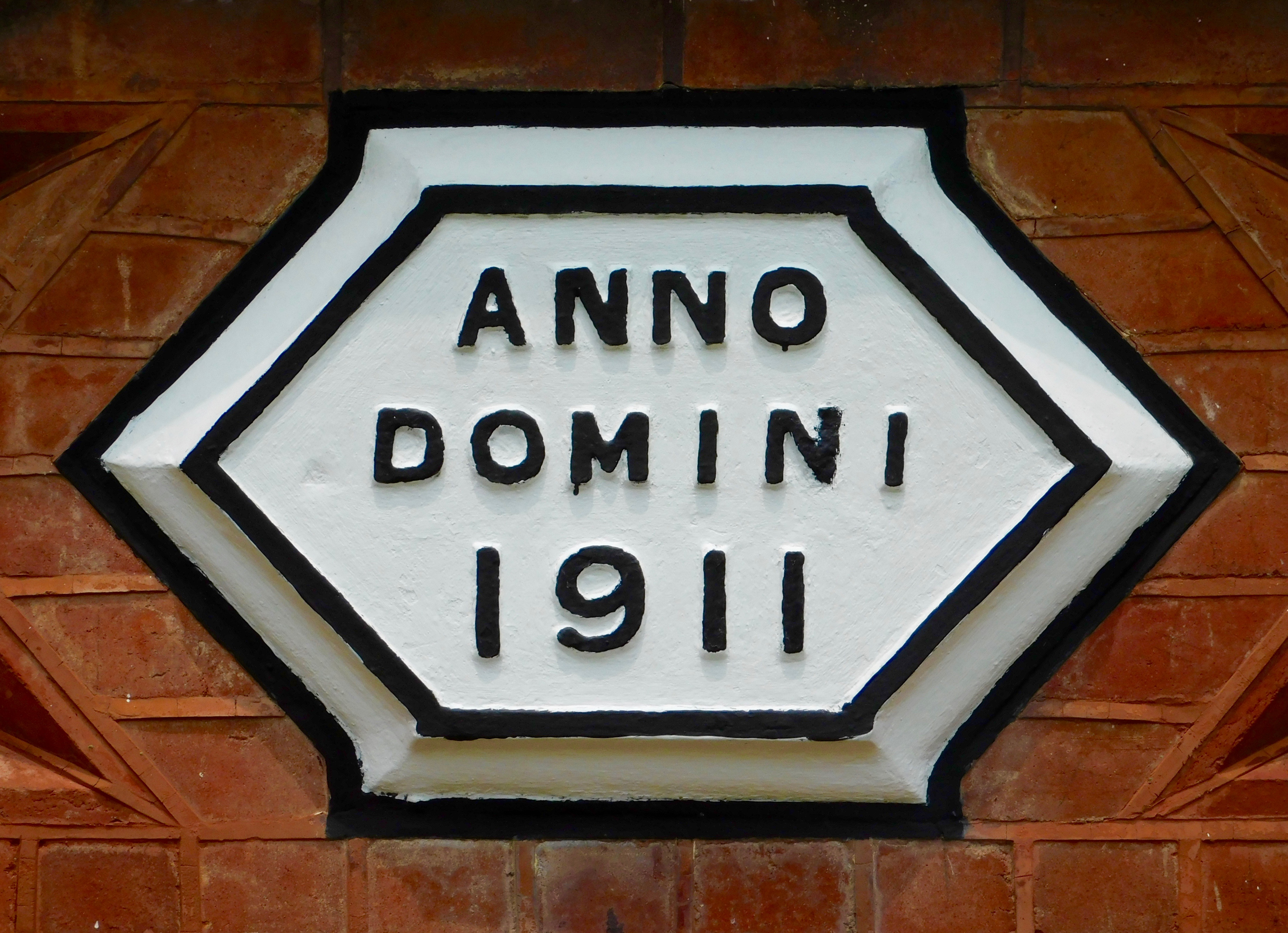 Foundation stone of Saint George's Church, Singapore (circa. 1911).